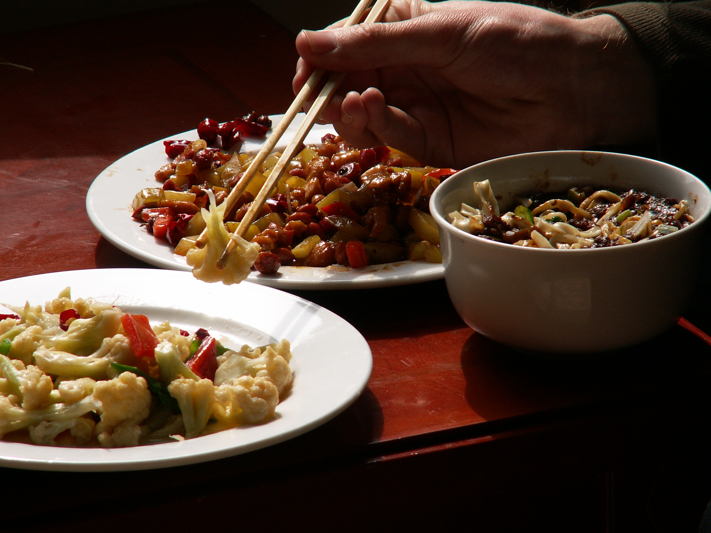 Food from Shangluo, Shaanxi, China.